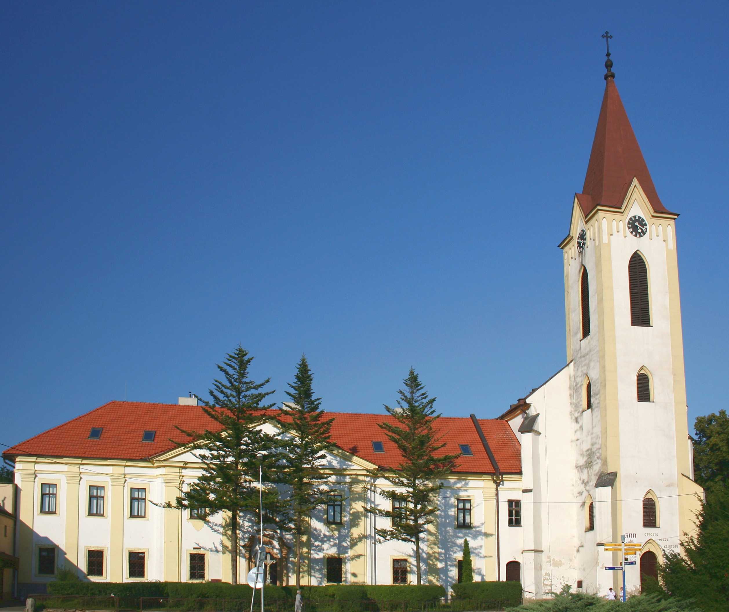 church in Vranov nad Topľou, Slovakia